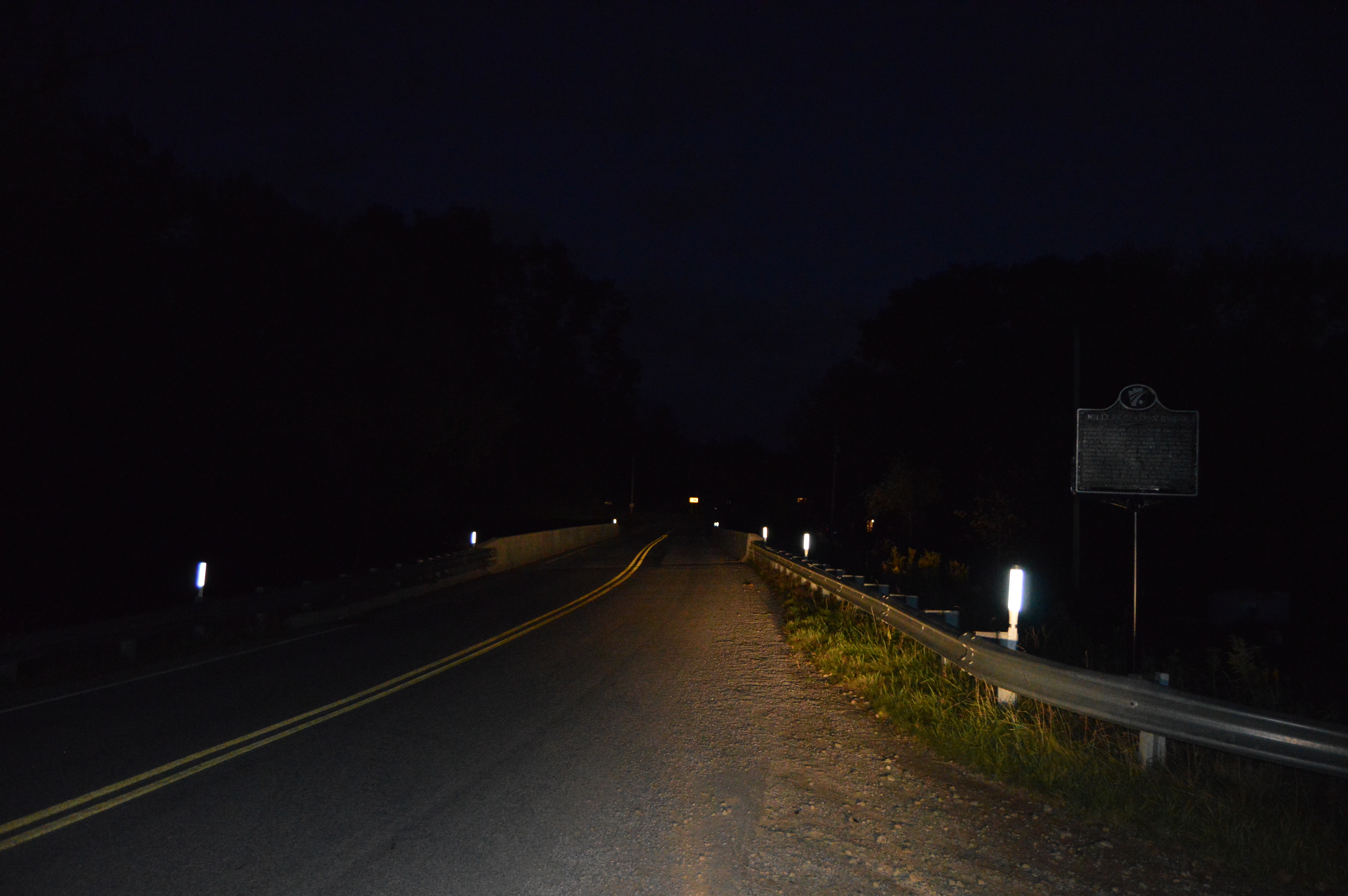 Overview of the bridge that carries Miller Station Road over French Creek in Rockdale Township, Crawford County, Pennsylvania, United States. It replaced the Bridge in Rockdale Township, which was built in 1887 and listed on the National Register of Historic Places in 1988; although destroyed, it has not yet been removed from the Register.